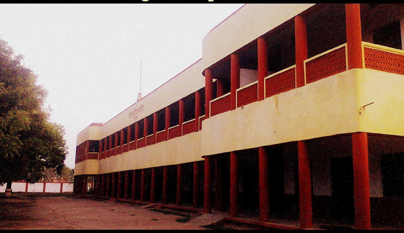 This picture is showing building of Birla Vidya Mandir Inter college. which is situated, 24 km North of Sitapur, at Hargaon.